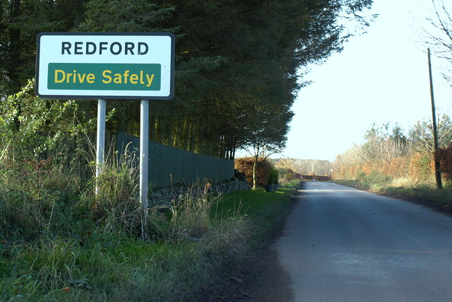 Entering Redford Village from Drumyellow Road